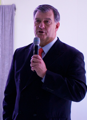 Dallas mayor Mike Rawlings. giovanni gallucci, social media for events" © 2011 giovanni gallucci